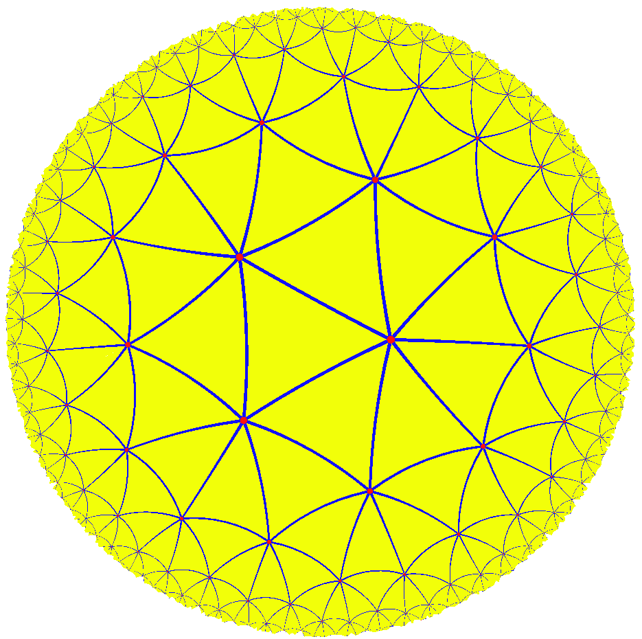 The order-7 triangular tiling of the hyperbolic plane, drawn in the Poincaré disk model.